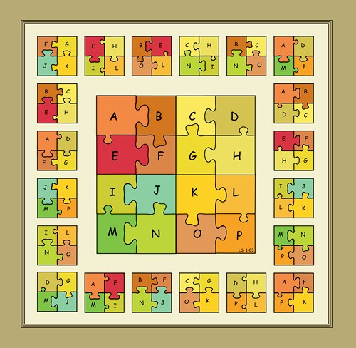 A 'self-interlocking' geomagic square. The 16 pieces interlock so as to pave a single square area.